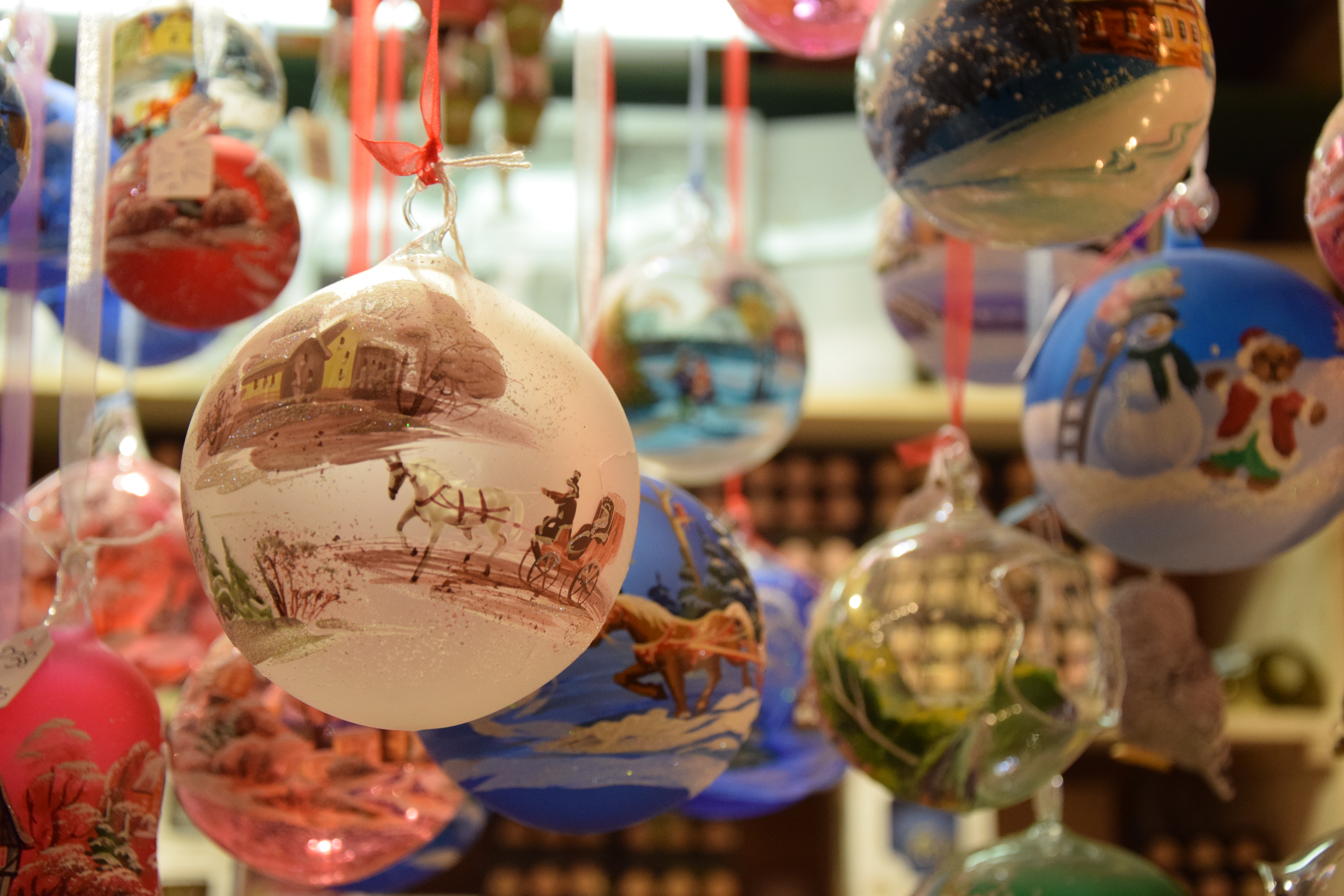 Painted Christmas balls on a stand at Christmas market Colmar, Alsace, France